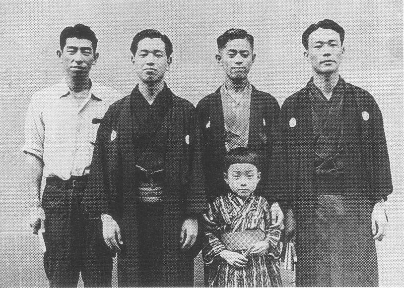 Shokaku Shōfukutei VI, Yonenosuke Katsura, Bunshi Katsura V, Nanryō Kyokud, Masaru Watada (child).